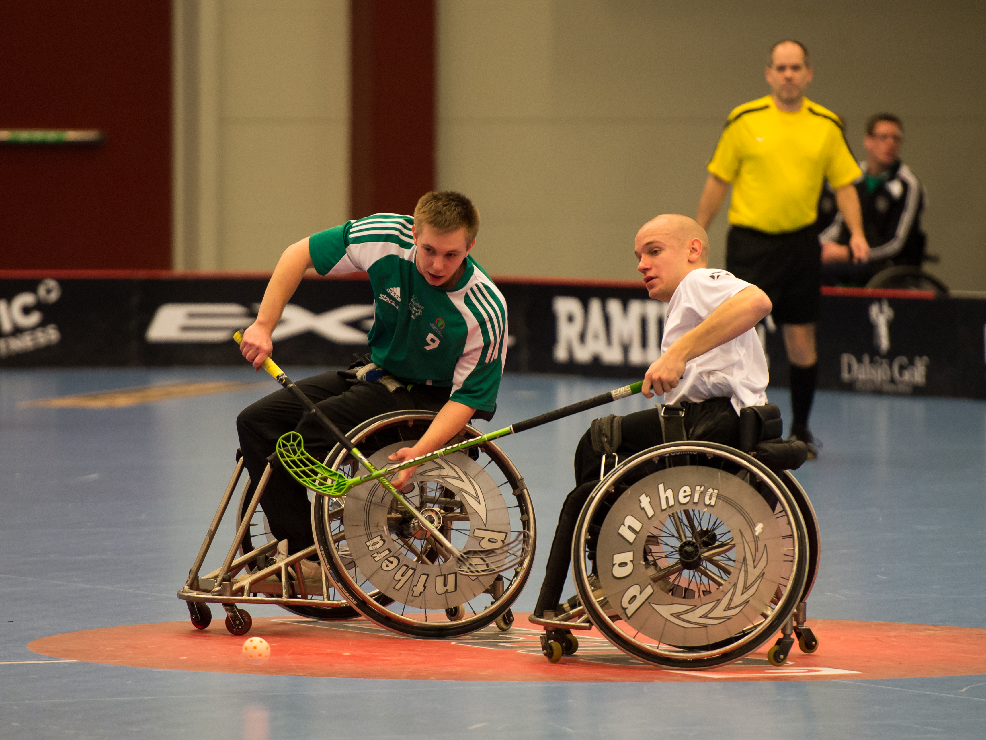 Swedish national championships in wheelchair floorball: Final game between Eskilstuna HIF (in green) and Nacka HI (in white). Eskilstuna won.